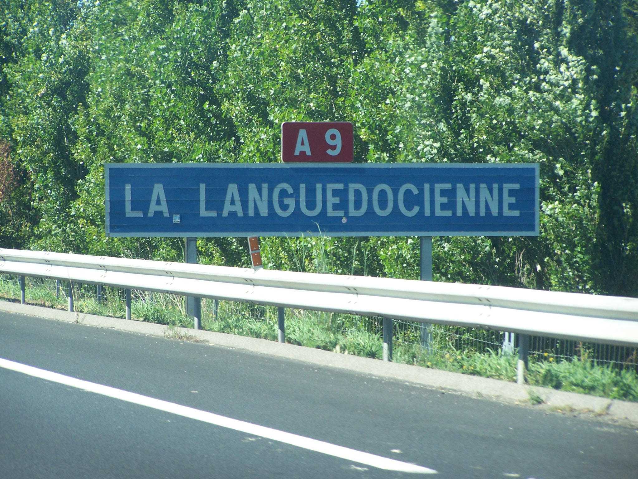 French Autoroute A9 also called on its first part (from Orange to Narbonne) : la Languedocienne (from the name of the region Languedoc).